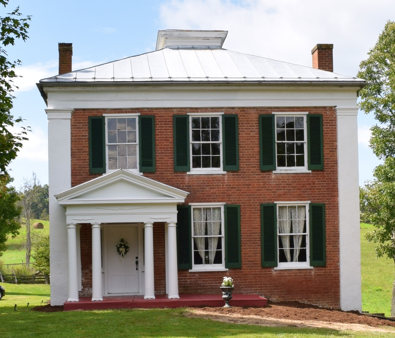 Church Hill in Timber Ridge just outside of Lexington, VA was established by Horatio Thompson and is also the birth place of Sam Houston, the famous liberator of the Republic of Texas and Governor of the states of Tennessee and Texas.